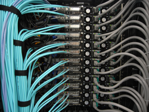 Computer hardware